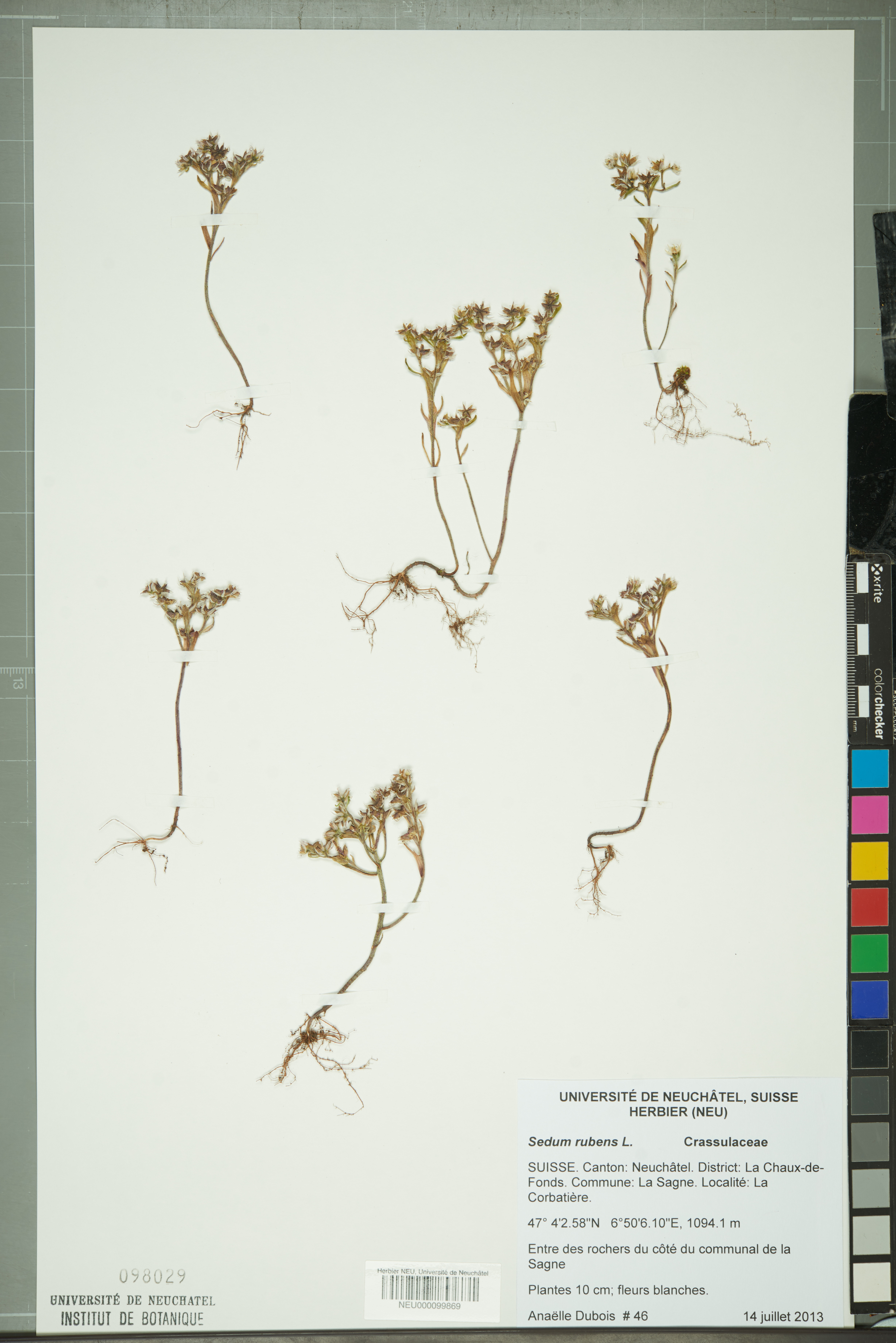 Dried pressed specimen of Sedum rubens